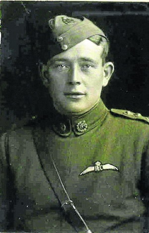 Captain Harry Butler (pilot), Royal Flying Corps